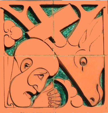 Jachthuis Sint-Hubertus